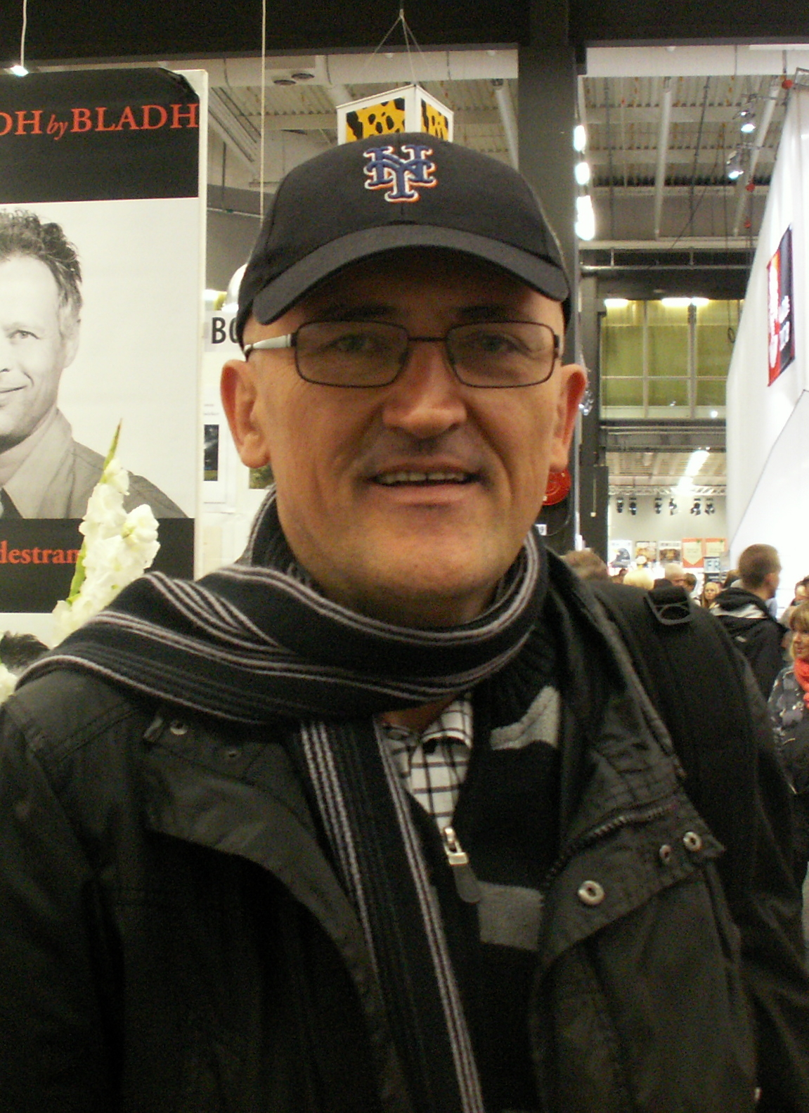 Midhat "Ajan" Ajanović, Bosnian-Swedish novelist and film theorist (animation). On the Göteborg book fair of 2012.